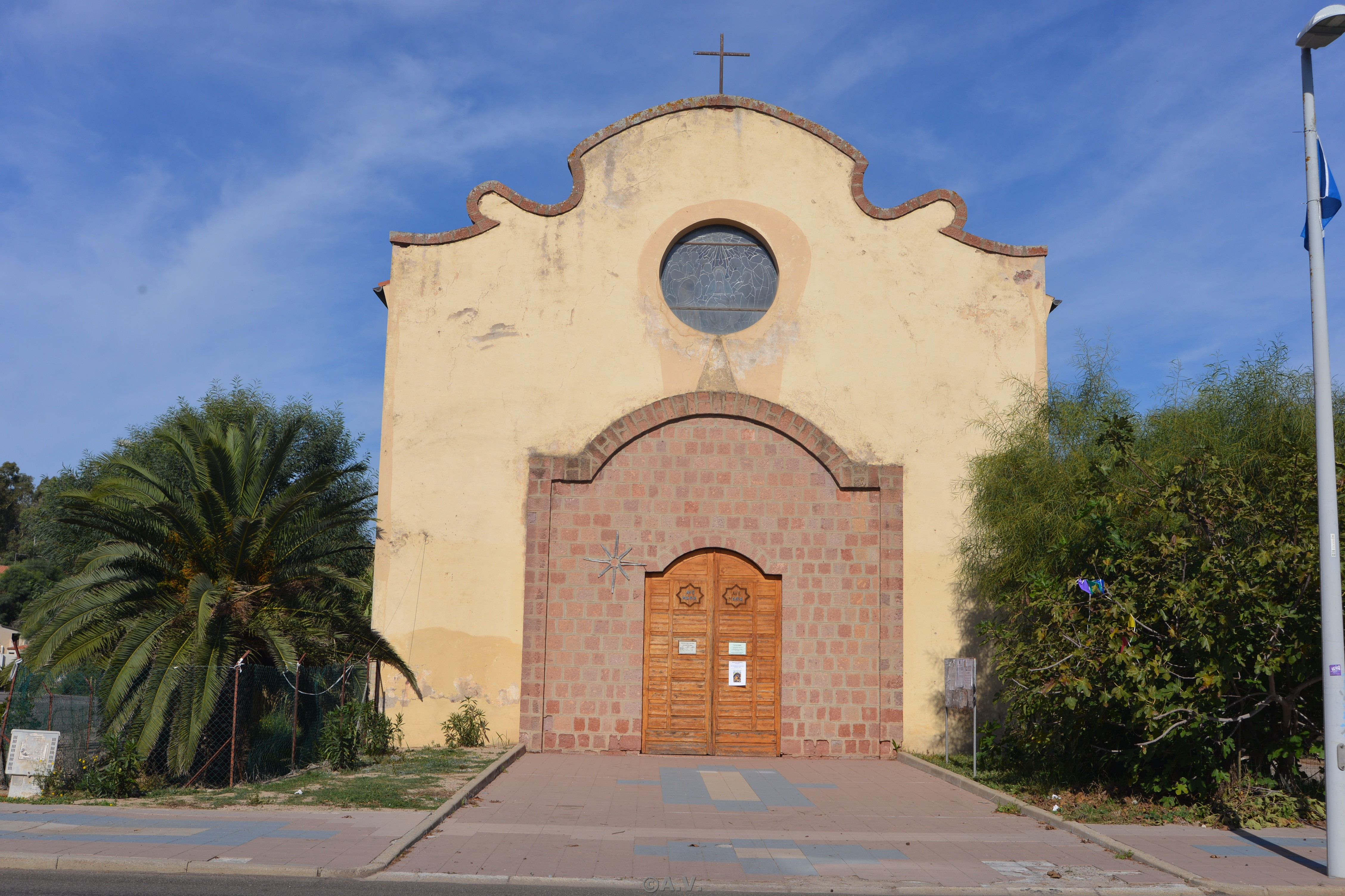 Church in Marina di Torre Grande